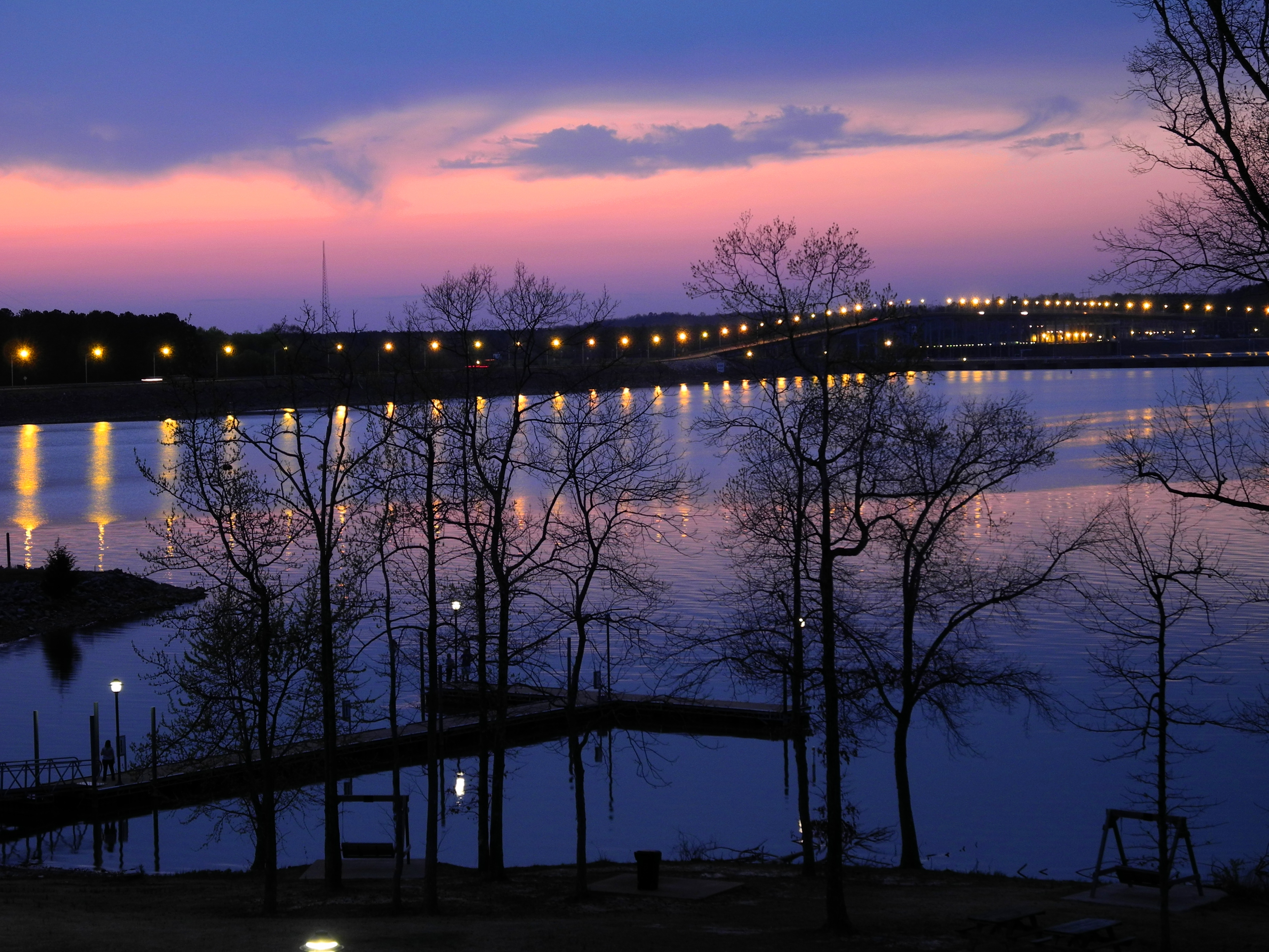 Evening view of the Pickwick Landing Dam on the Tennessee River from the inn at Pickwick Landing State Park.